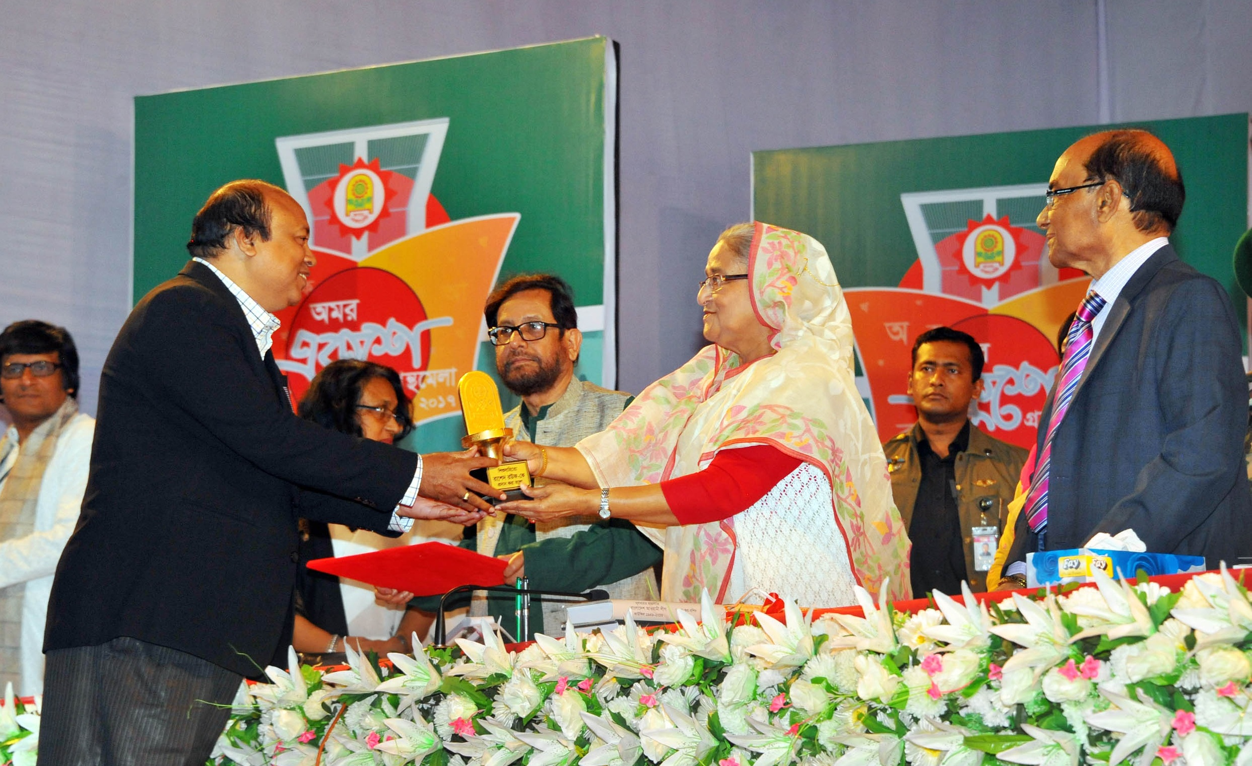 Rashed Rouf Receving Bangla Academy Award From Sheikh Hasina, the honorable Prime Minister of Bangladesh.